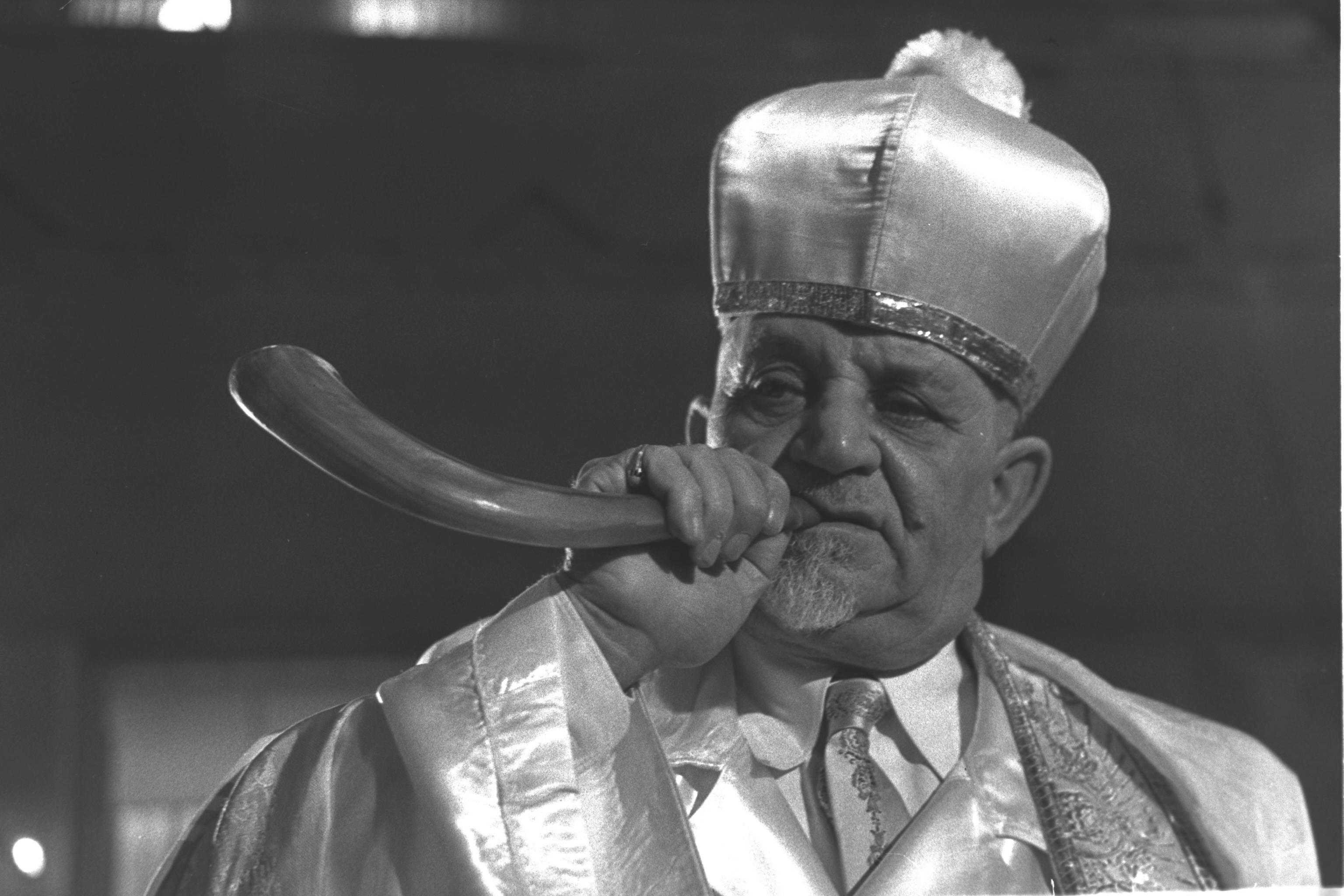 A “Shamash” (sexton) blowing the shofar before “Yom Kippur” at the Ohel Moed Sephardi Synagogue in Tel Aviv.